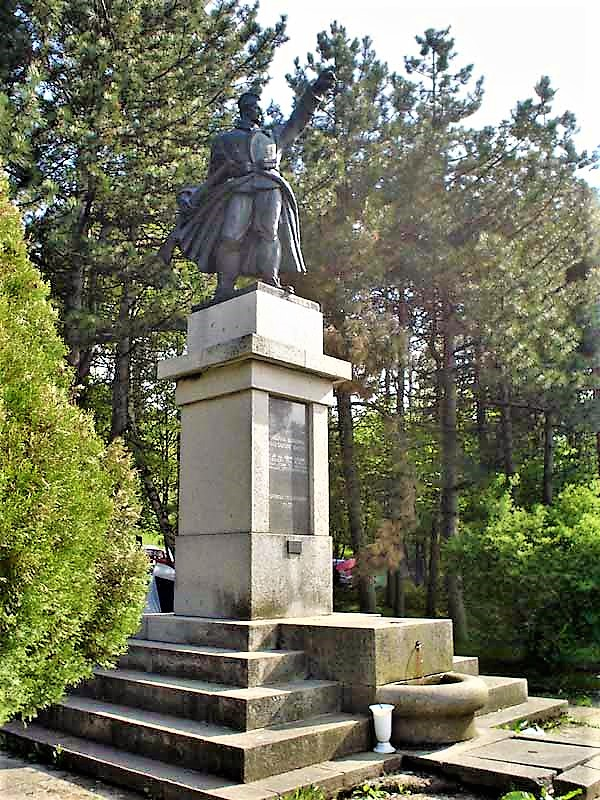 Monument 1300 каплара (1300 caplars) on Rajac (Serbia) in remembering of 1300 (of whom about 800 died) caplars/students who joined Kolubara battle and help Serbian forces to win.